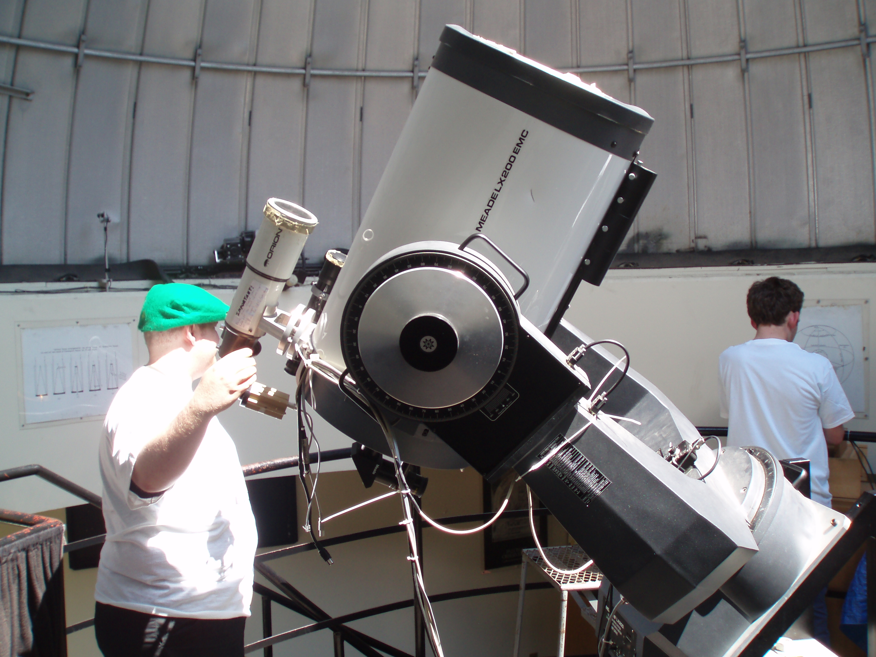 York University Observatory, Toronto